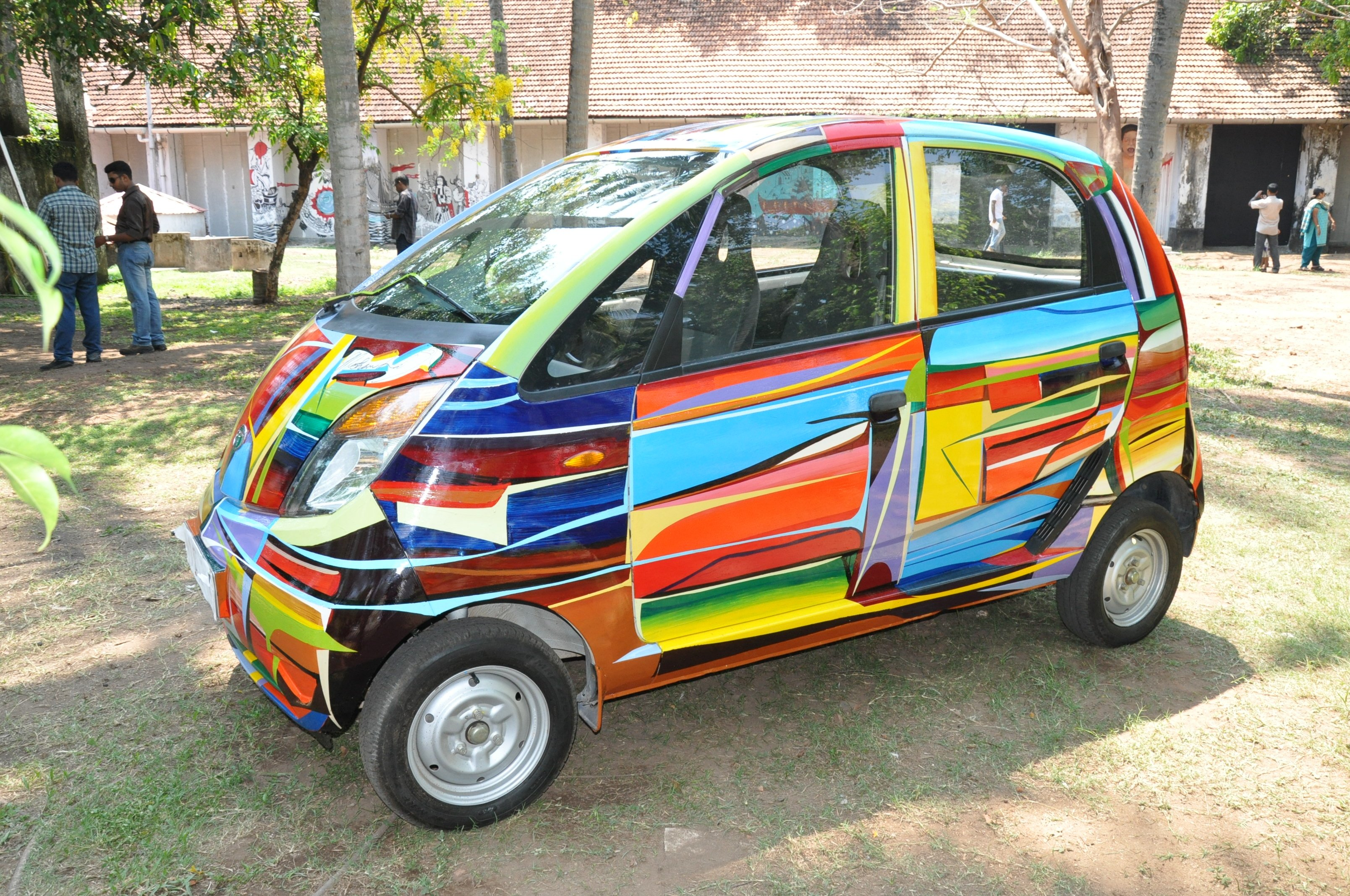 'Maximum Nano', the India's first 'art car' by Bose Krishnamachari This media file is uploaded with Malayalam loves Wikimedia event - 3.